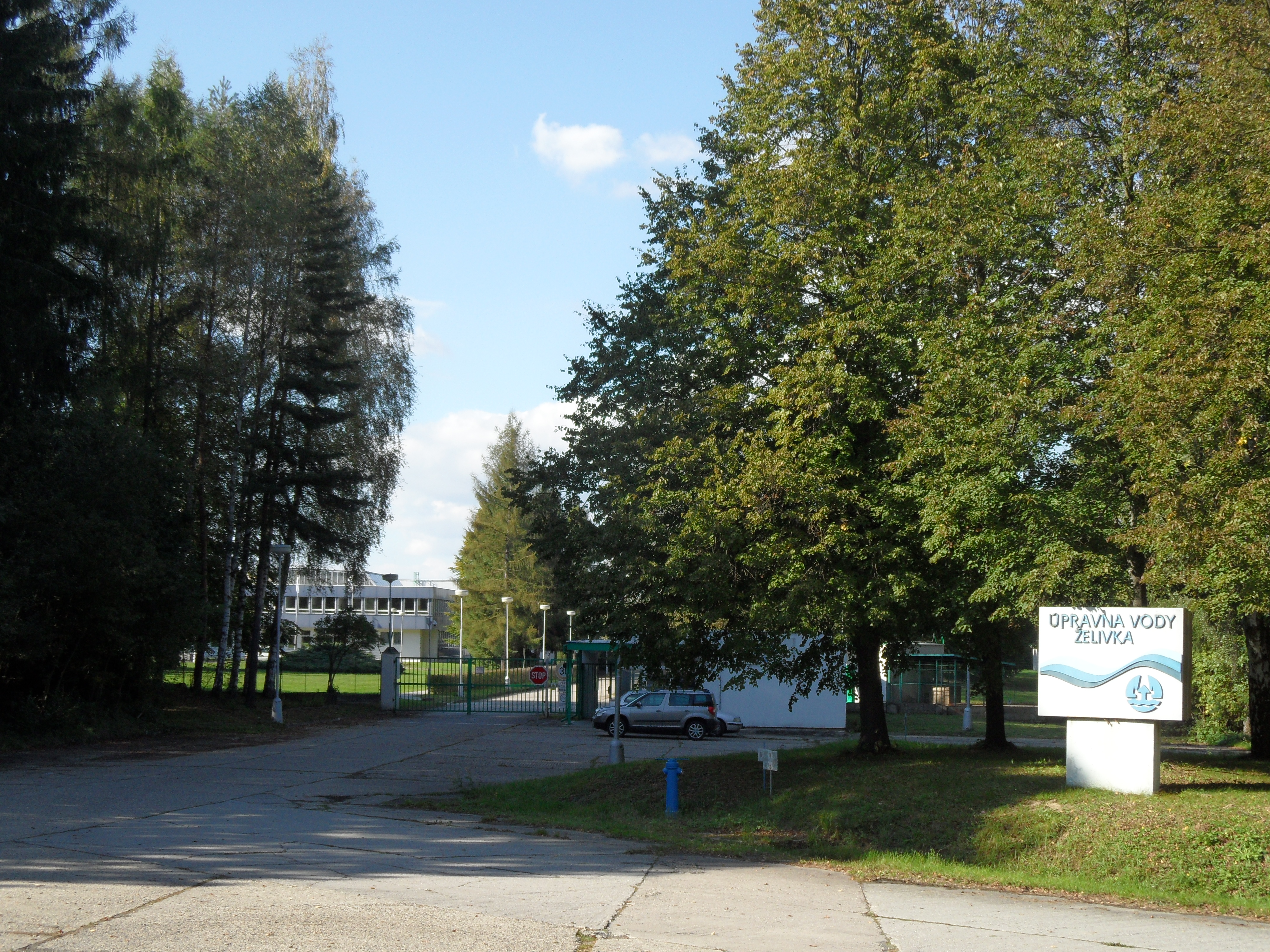 Želivka Water Works A. Overview of Main Site (Upper Site), the Czech Republic.